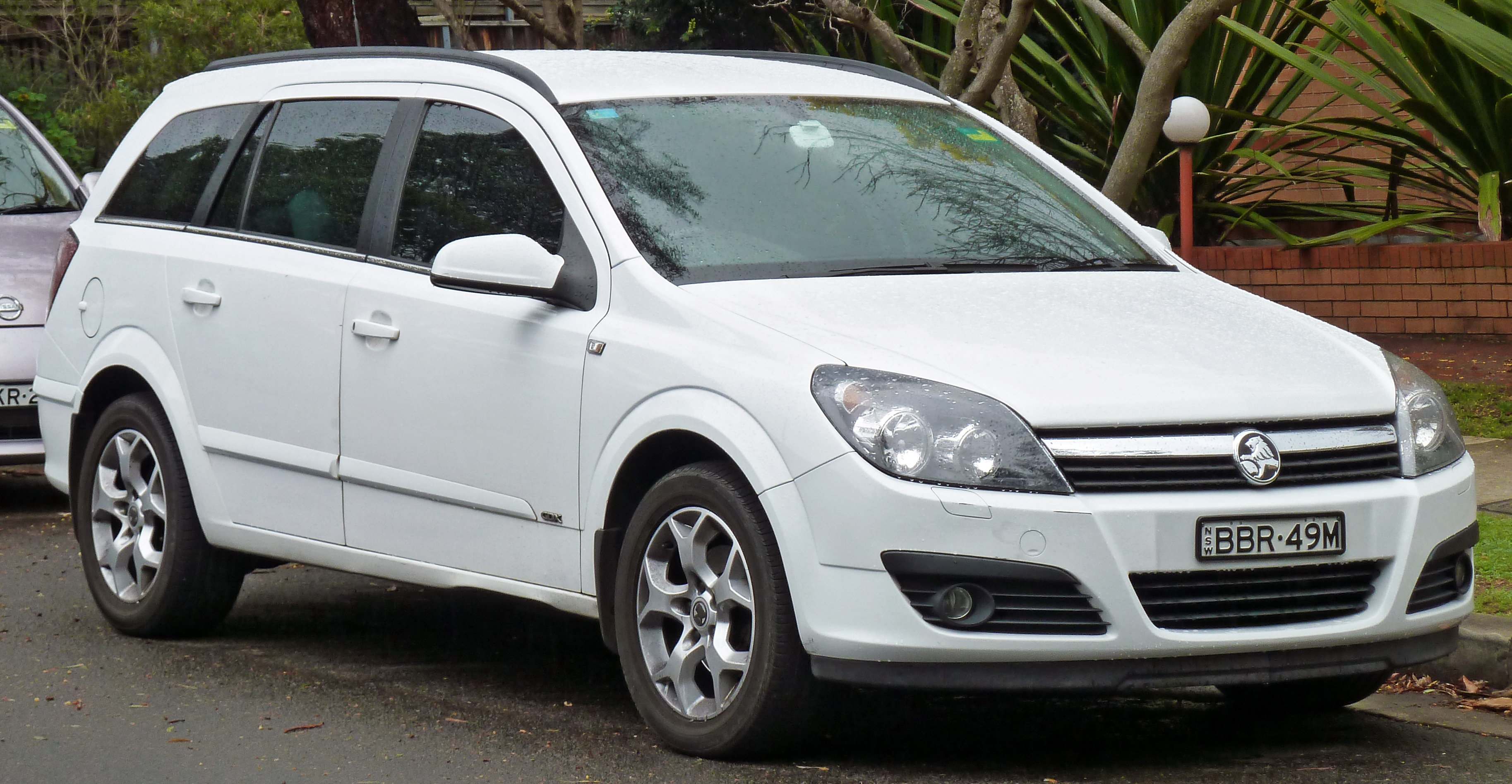 2007 Holden Astra (AH) CDX station wagon. Photographed in Miranda, New South Wales, Australia.